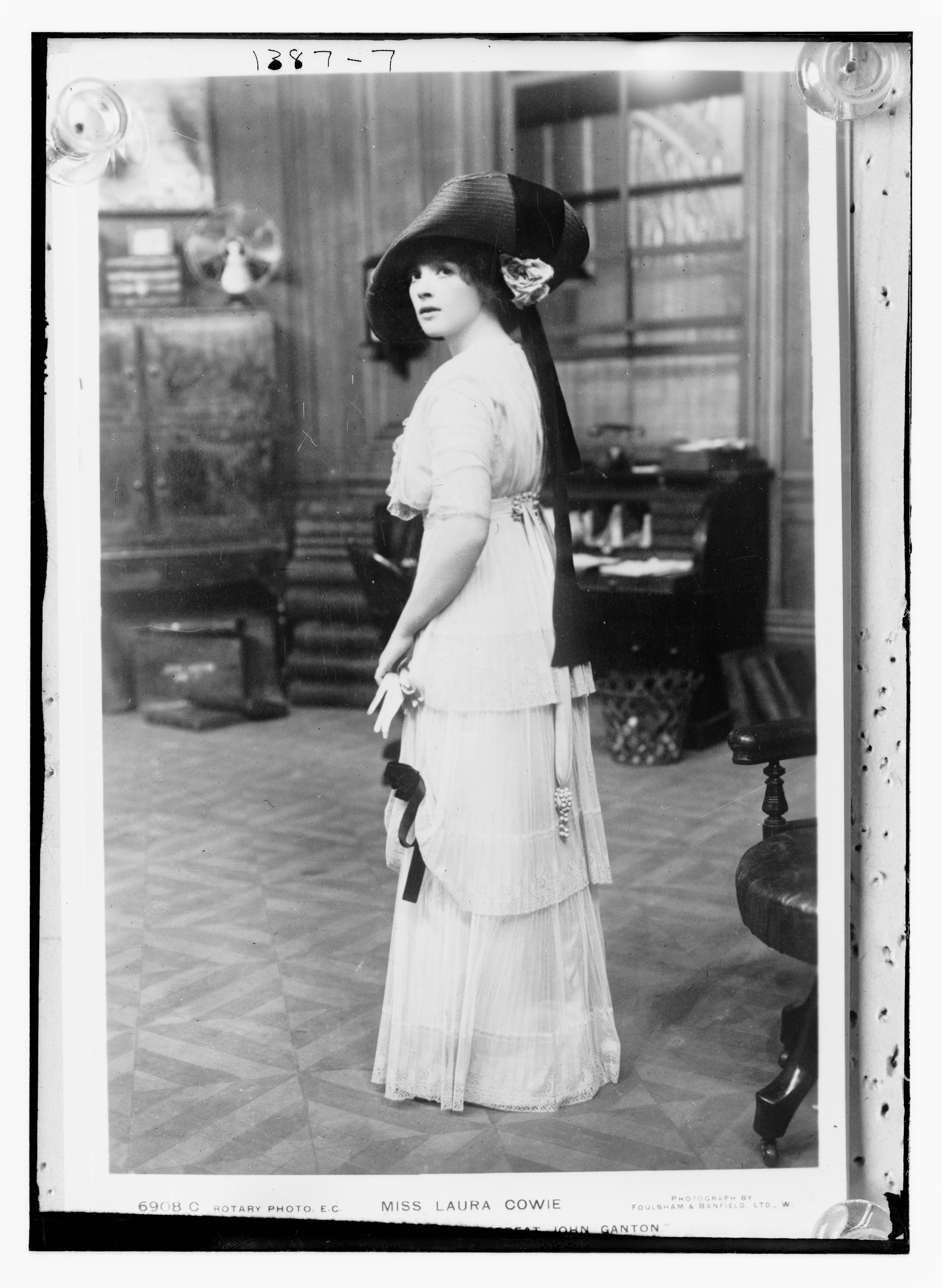 Title: Miss Laura Cowie Abstract/medium: 1 negative : glass ; 5 x 7 in. or smaller.